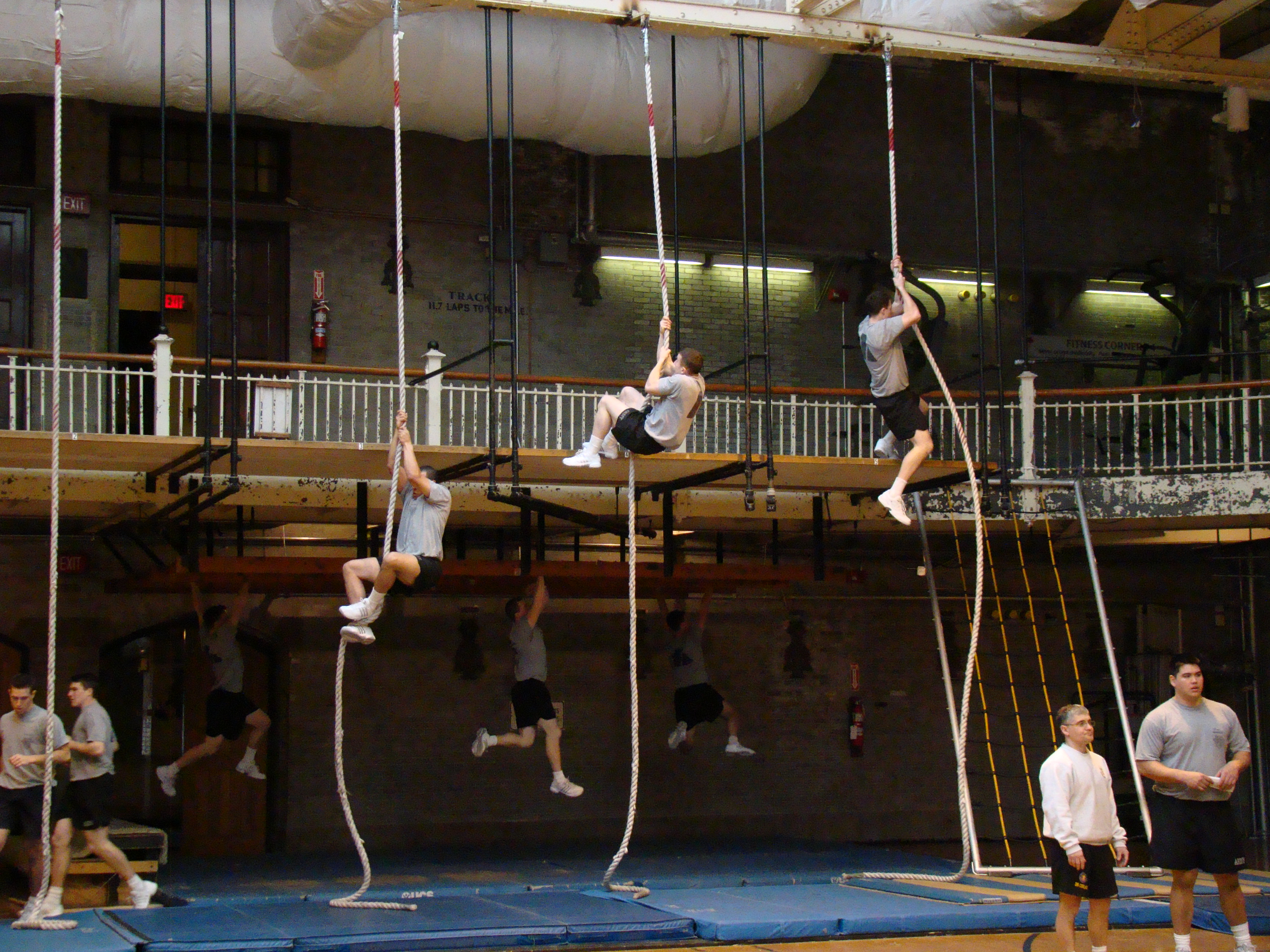 USMA cadets navigate the horizontal ladder and vertical rope obstacle of the Indoor Obstacle Course Test, West Point, NY